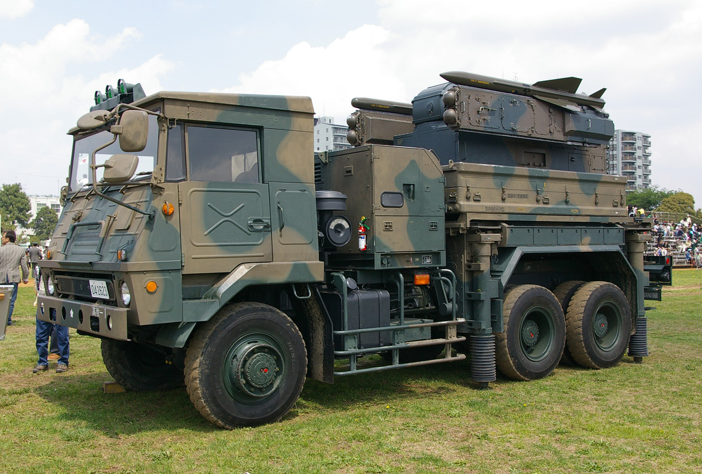 Taken by Los688,29-Apr-2008,JGSDF Camp-Shimoshizu.JGSDF Type 81C Surface-to-Air Missile,Air Defence Artillery School unit. ja:2008年4月29日、投稿者撮影。陸上自衛隊下志津駐屯地記念行事。81式短距離地対空誘導弾改（発射装置）、高射教導隊。